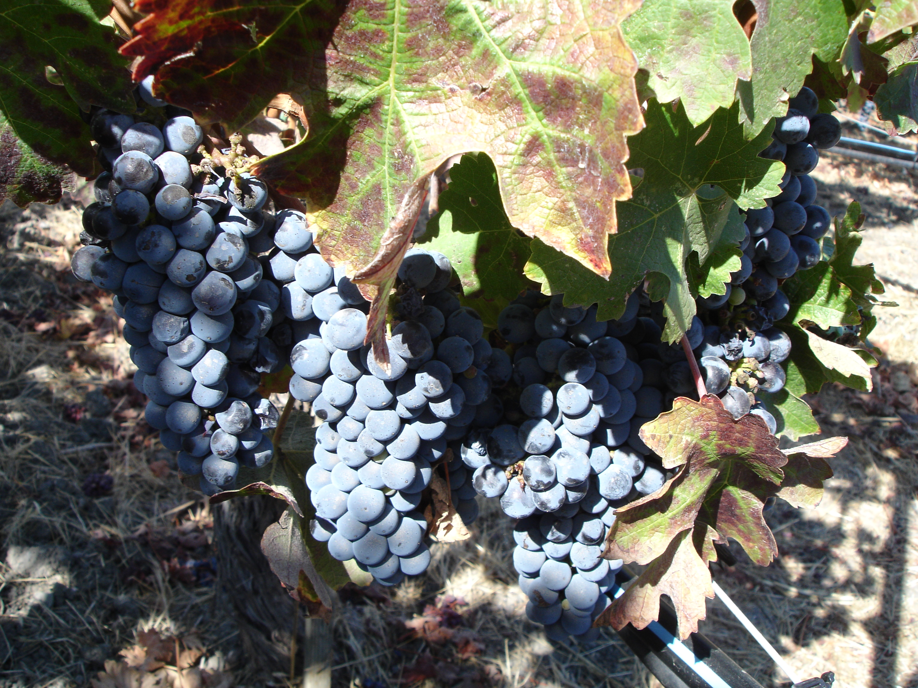 Cabernet Sauvignon grapes growing in the vineyard of the Napa Vally winery Opus One.